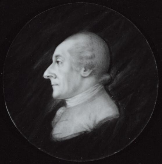 Adolph Werner Carel van Pallandt